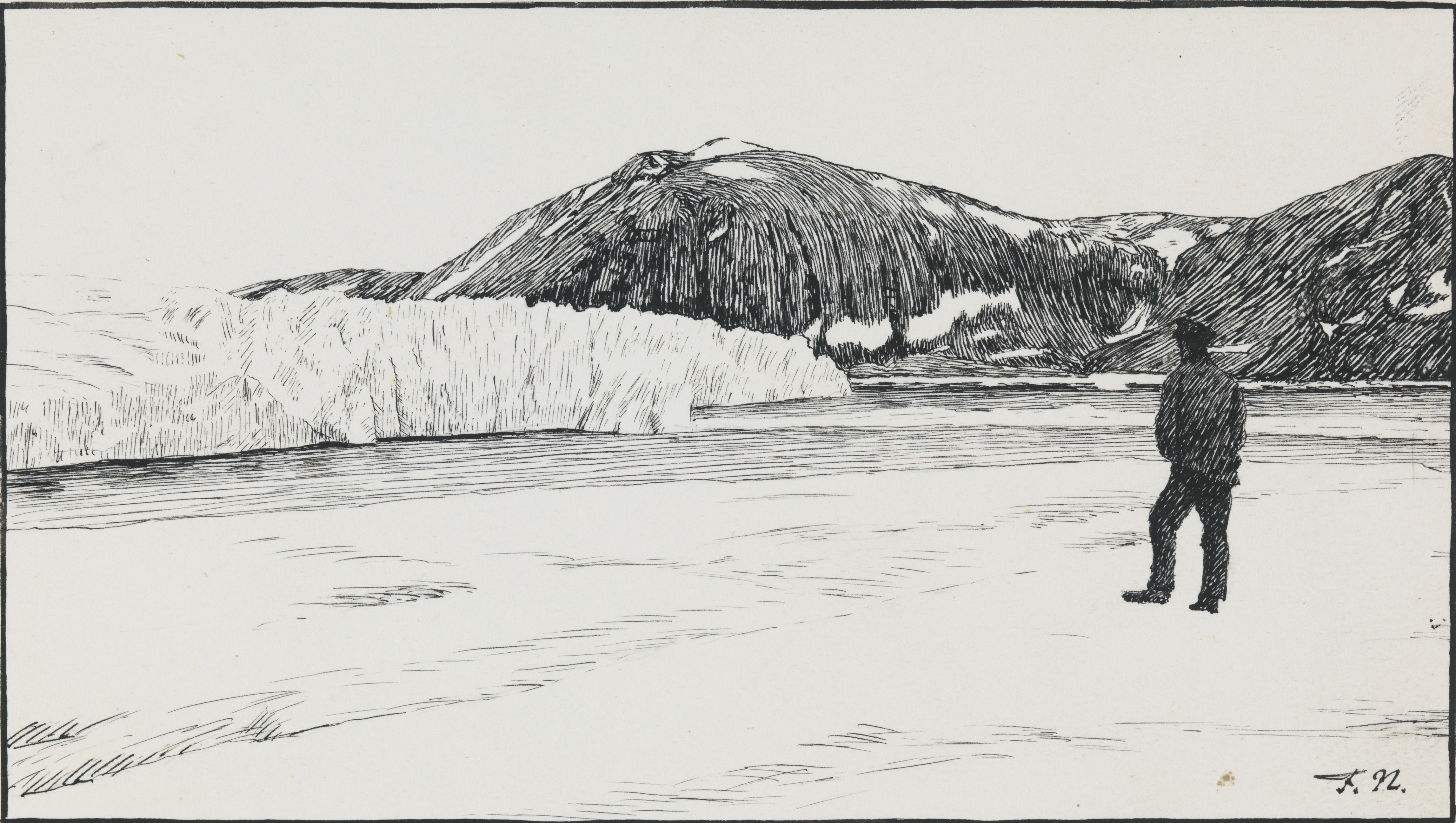 Pen and ink drawing. The shore by Blomstrandbreen.